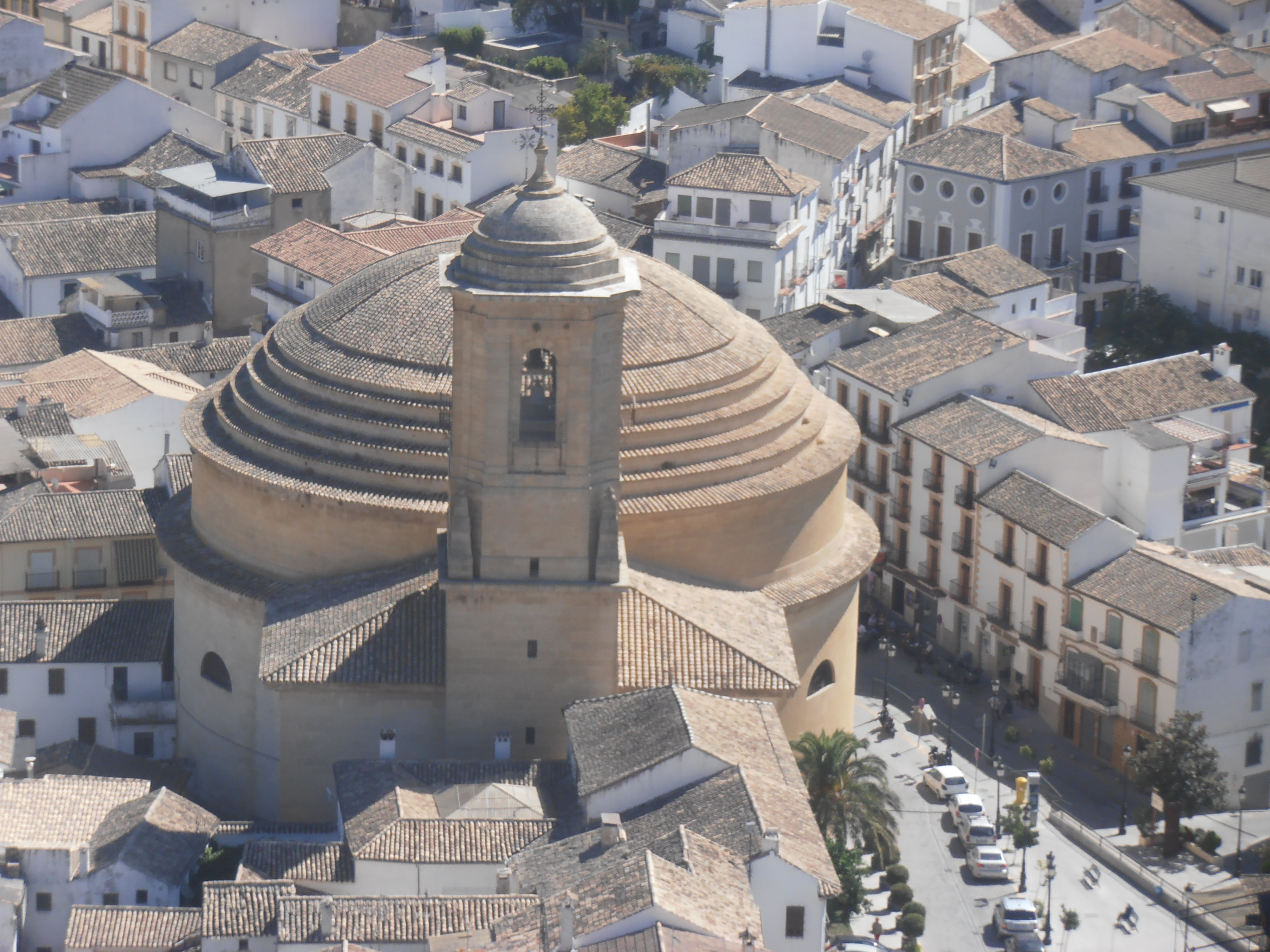 CHURCH OF MONTEFRIO. GRANADA.